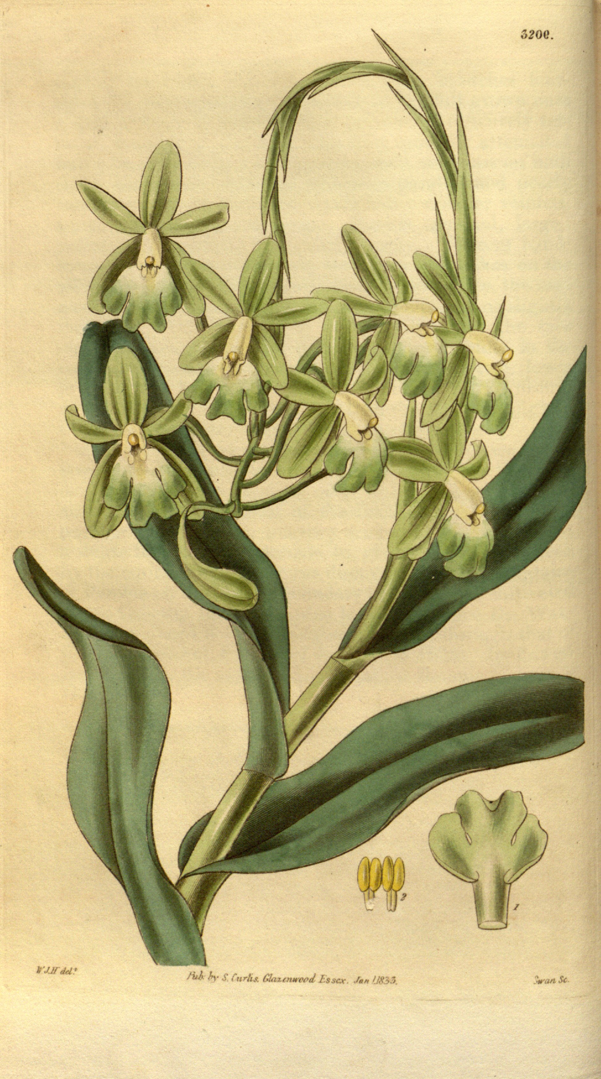 Illustration of Epidendrum harrisoniae